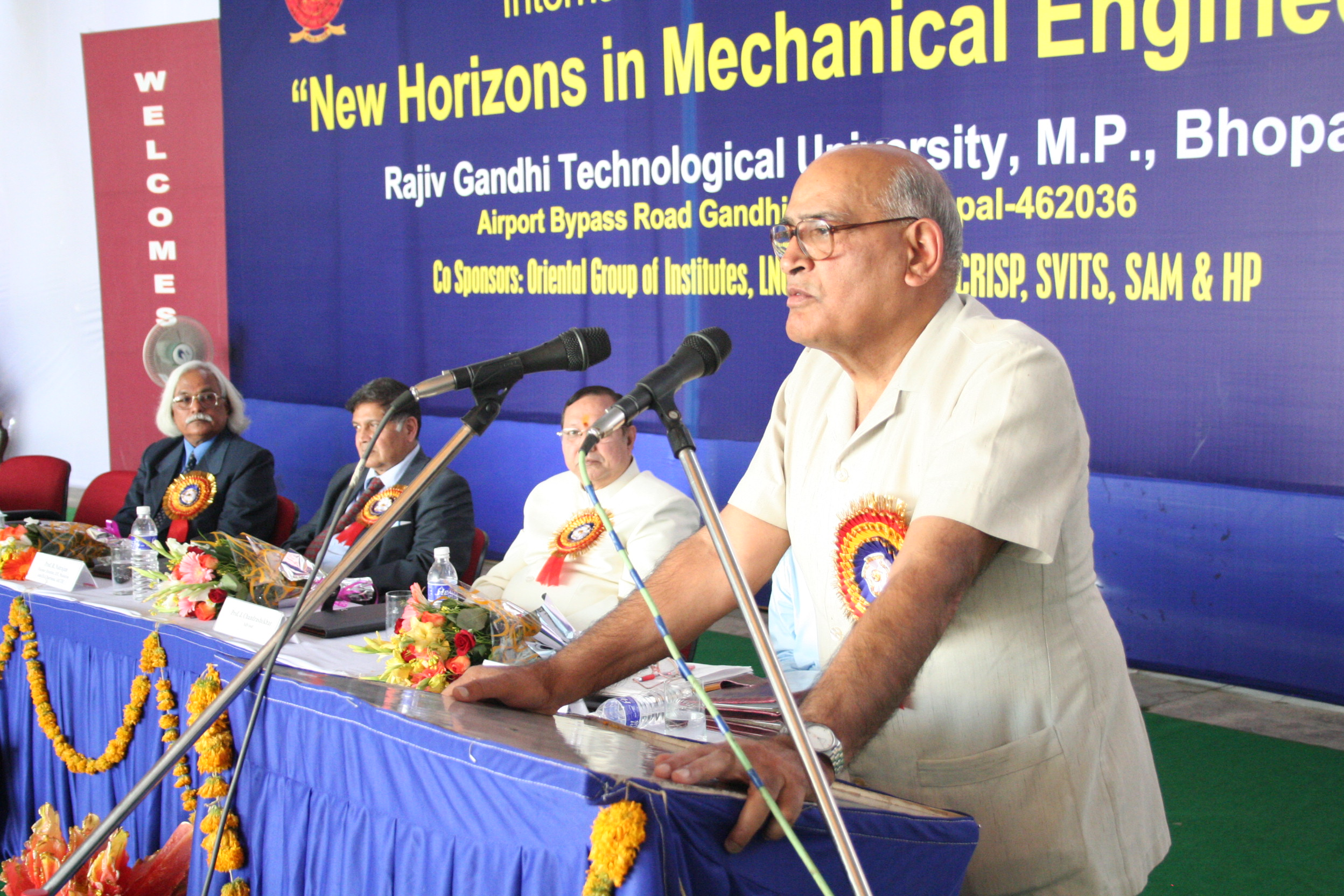 Inaugurating a seminar "New Horizons in Mechanical Engineering" at Rajiv Gandhi Technological University